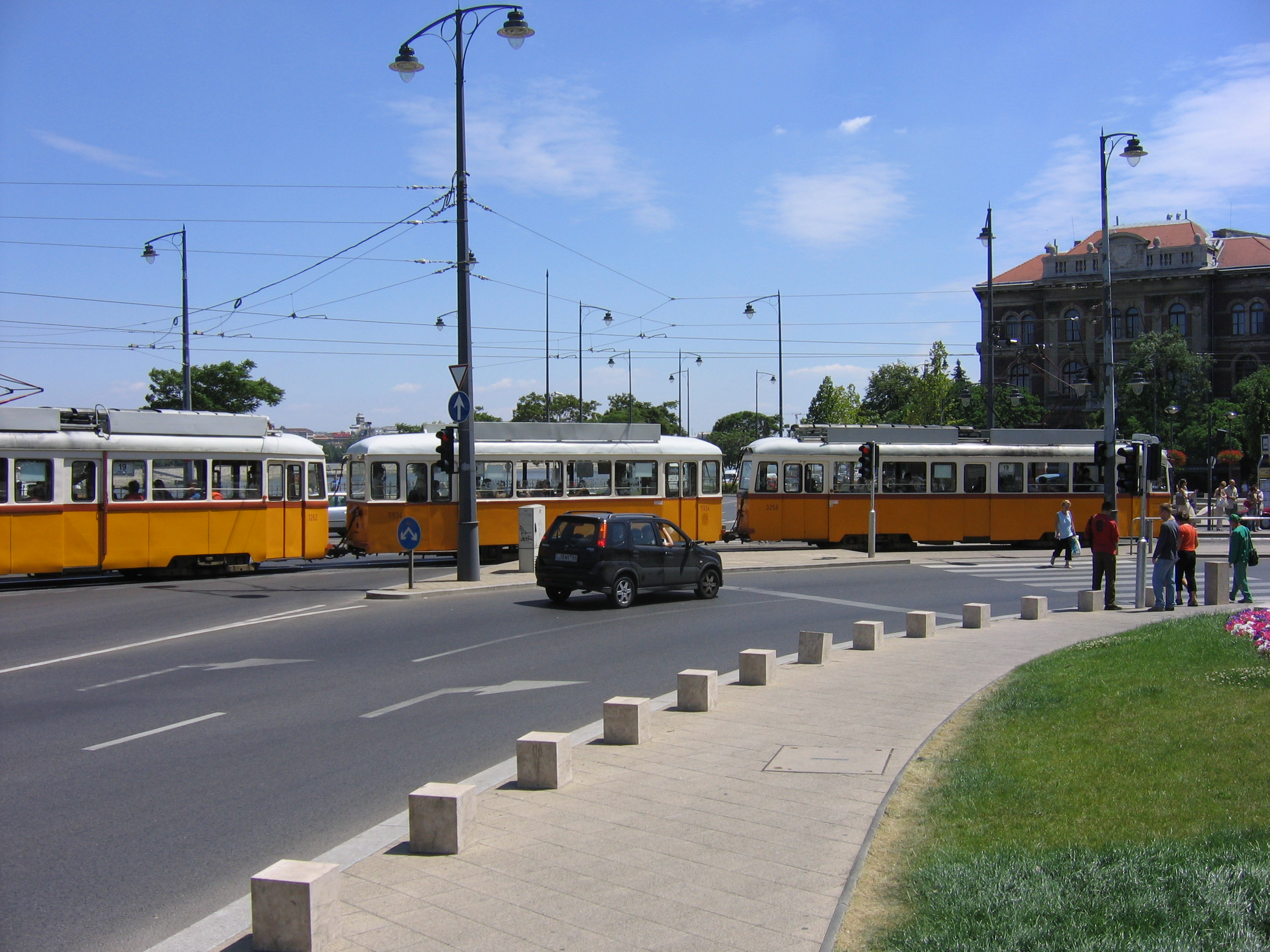 Scenes of Budapest (see filename)